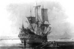 Roebuck - William Dampier (1699) Landing in Shark Bay/Australia